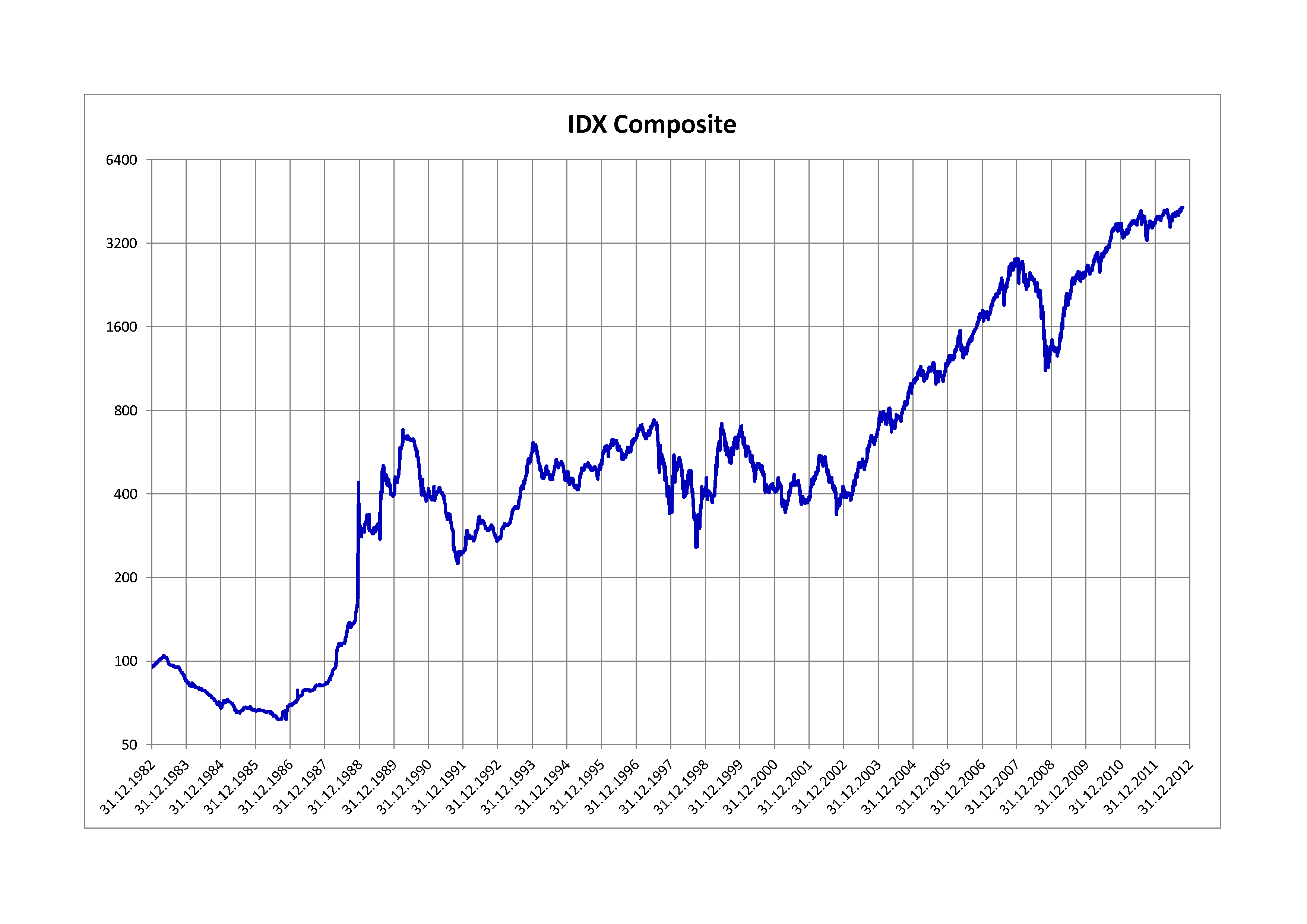 IDX Composite from December 1982 to October 2012 (daily closings)